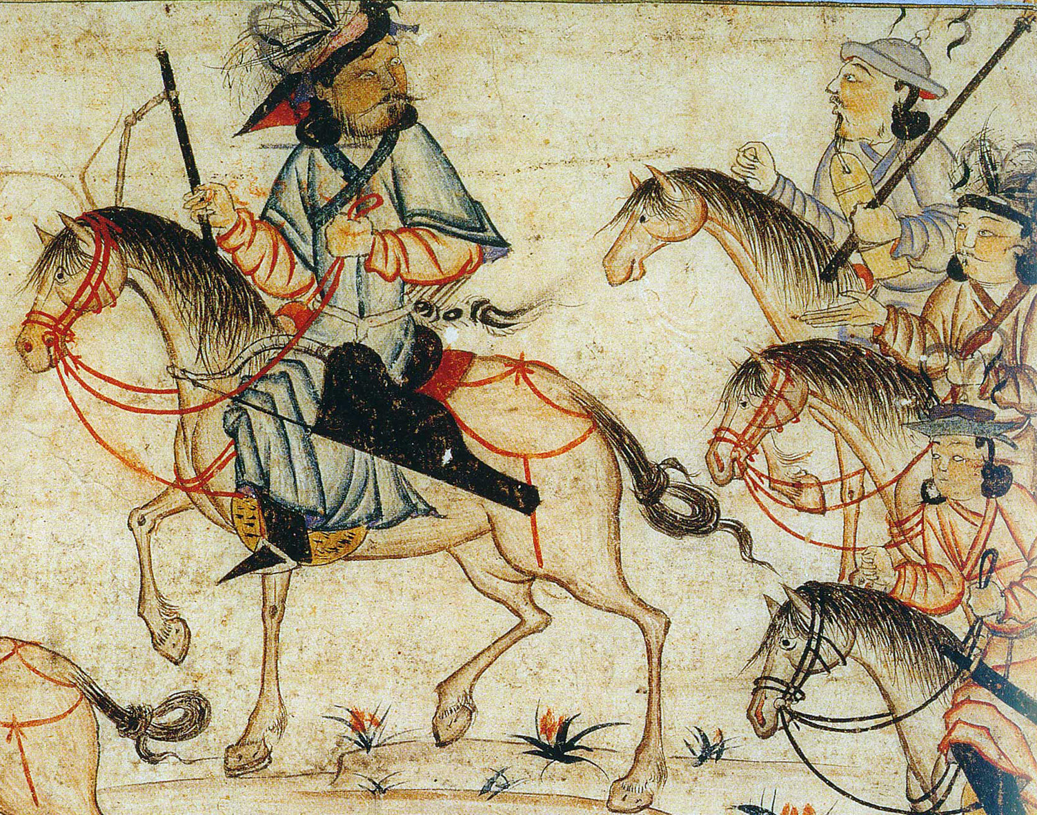 A lord travelling. Illustration of Rashid-ad-Din's Jami' at-tawarikh (fragment). Tabriz (?), 1st quarter of 14th century. Water colours on paper. Original size: 18.2 cm x 26 cm. Staatsbibliothek Berlin, Orientabteilung, Diez A fol. 71, p. 53. The riders on the upper right carries a paiza, a sign that identifies his bearer as on official mission.